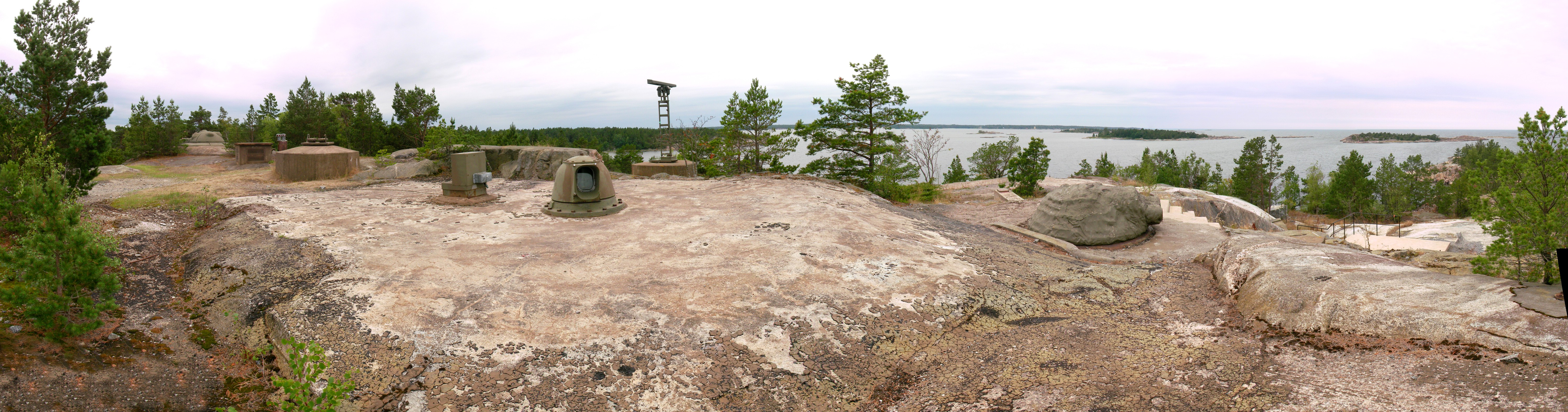 Coastal defense battery on Arholma in the Swedish Baltic archipelago, picture shows various guidance equipment for directing fire.